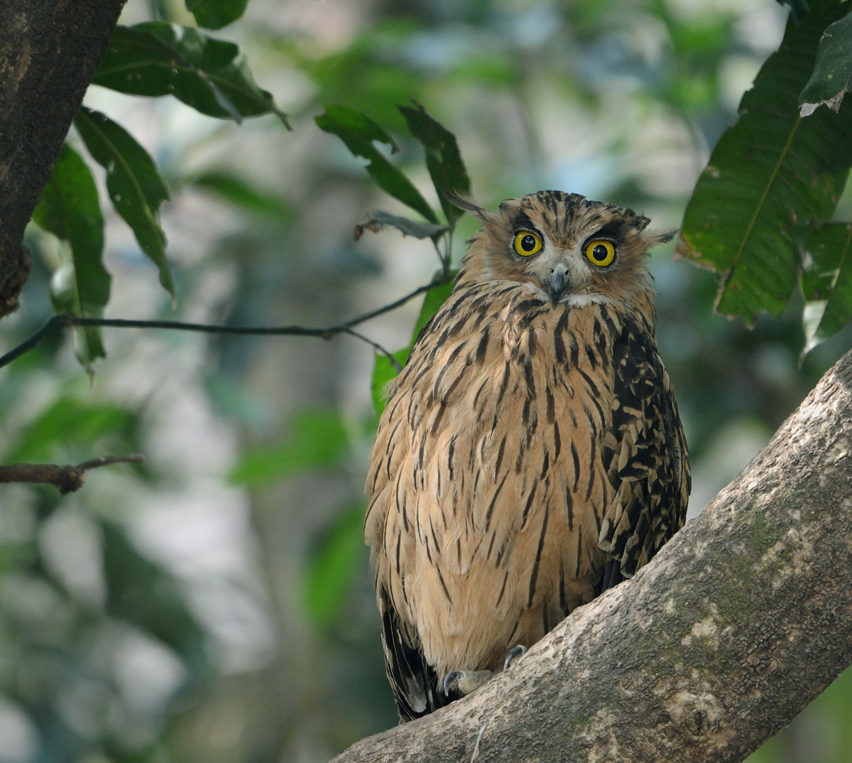 A Tawny Fish Owl at the Dhikala Zone of the Jim Corbett National Park, Uttarakhand, India.